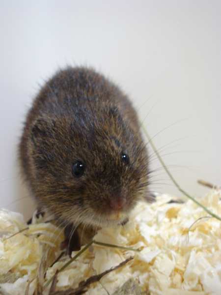 root vole (=tundra vole) Microtus oeconomus in Biebrza Marshes, autumn 2008